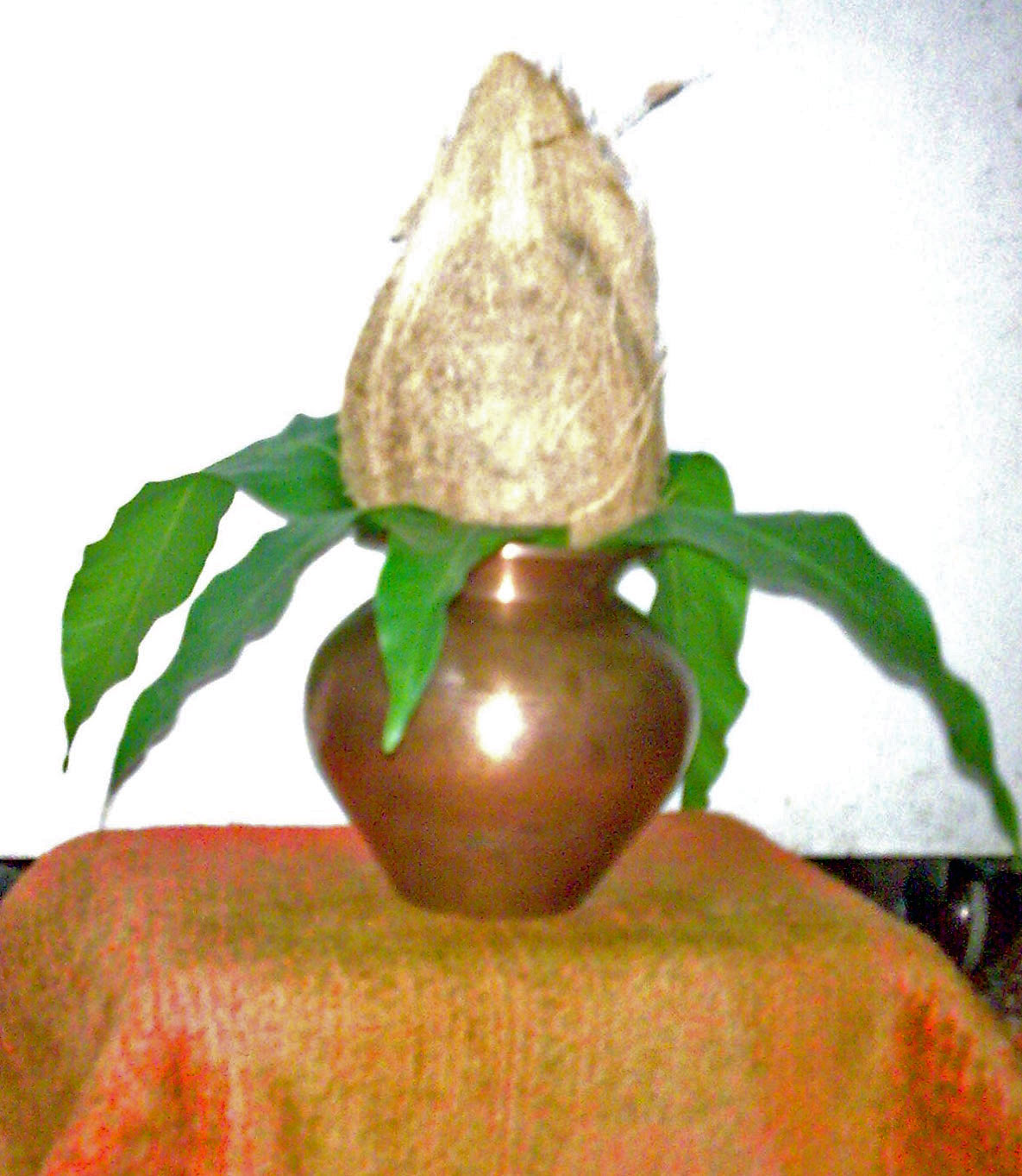 A Purna-ghata or Purna-Kalasha